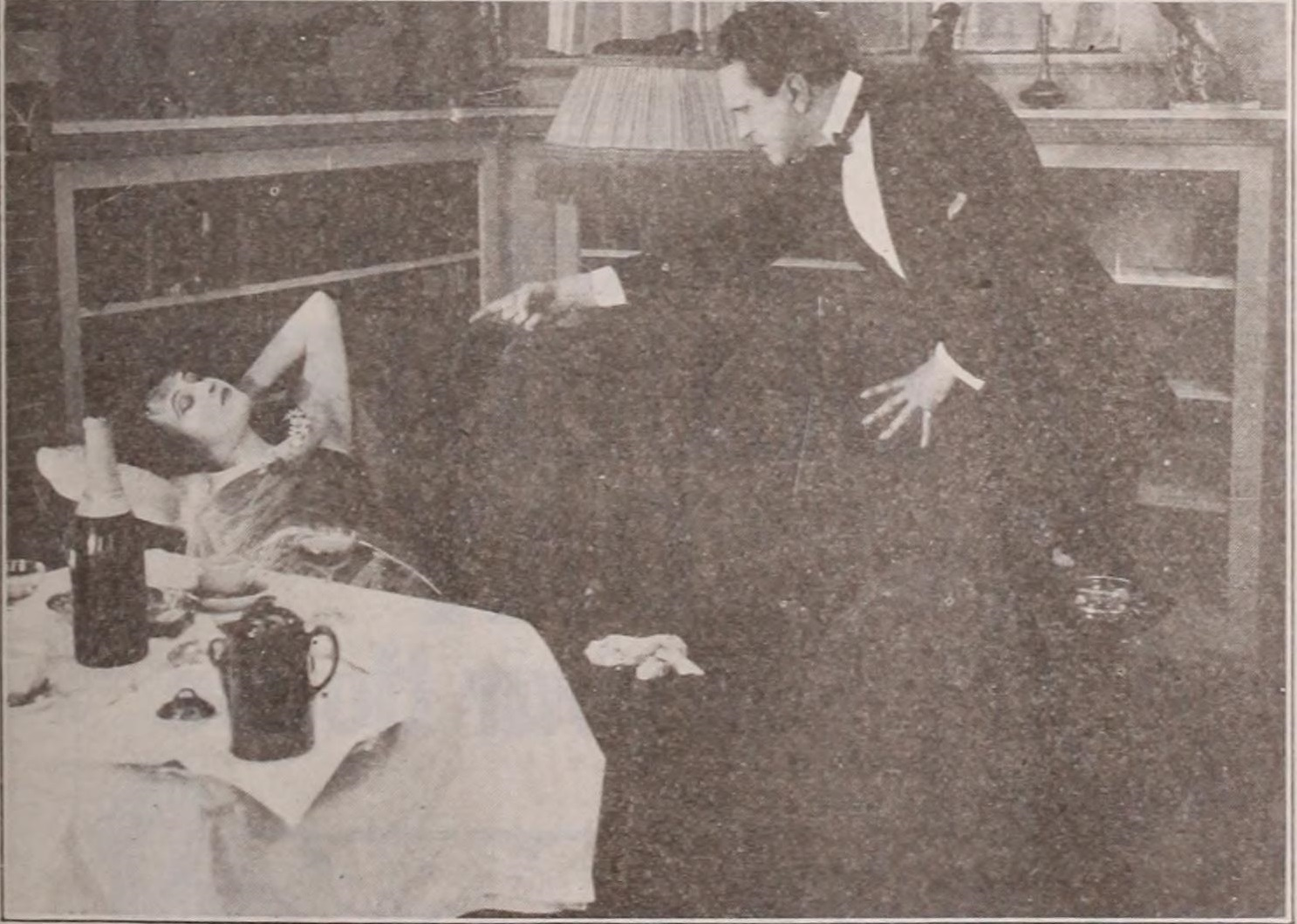 A scene from the 1917 film Who's Your Neighbor? found in the July 21, 1917 edition of Exhibitor's Herald. Image suffers from severe degradation from its printing and the quality of the original surviving document that was scanned by . Image was obtained from this version at Uploader's note - This image currently represents the only image still that I found of the lost film. The image did not have any specific identification of the staff, but it appears to be Christine Mayo on the left.